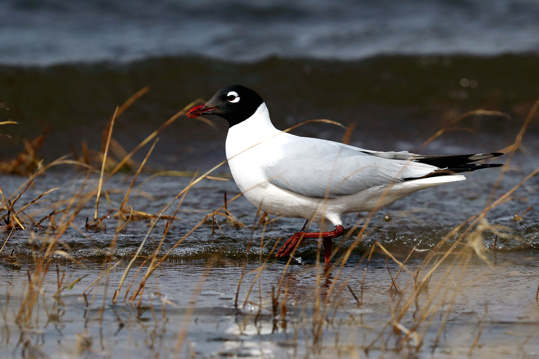 Relict Gull Ichthyaetus relictus, Hongjiannao, Shaanxi Province, China